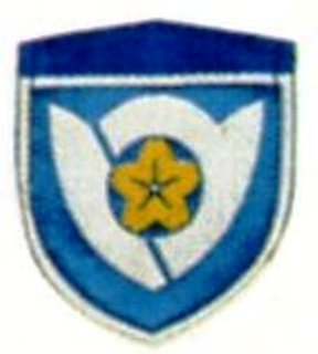 12th Division JGSDF(Signal)